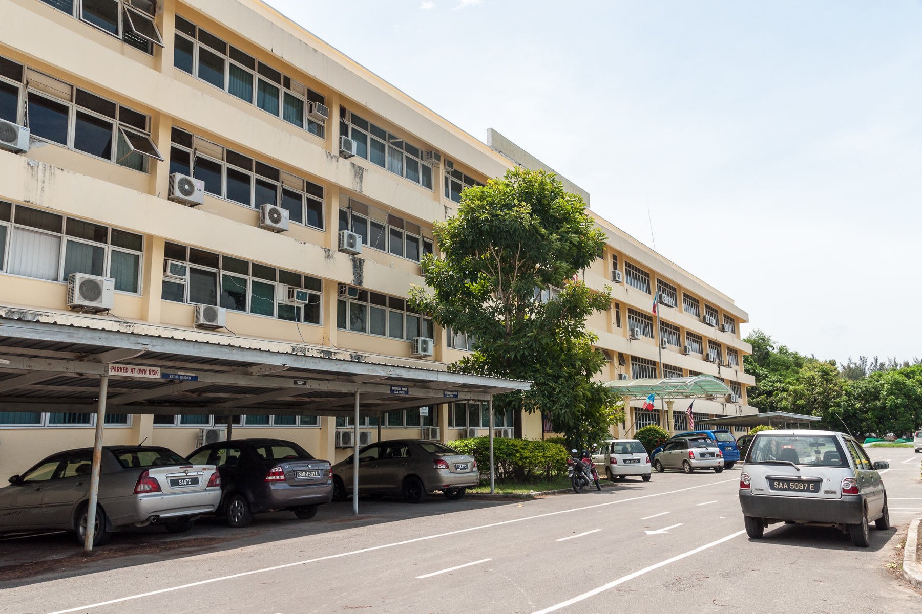 Kudat Disrict Office and District Council (Majlis Daerah Kudat)